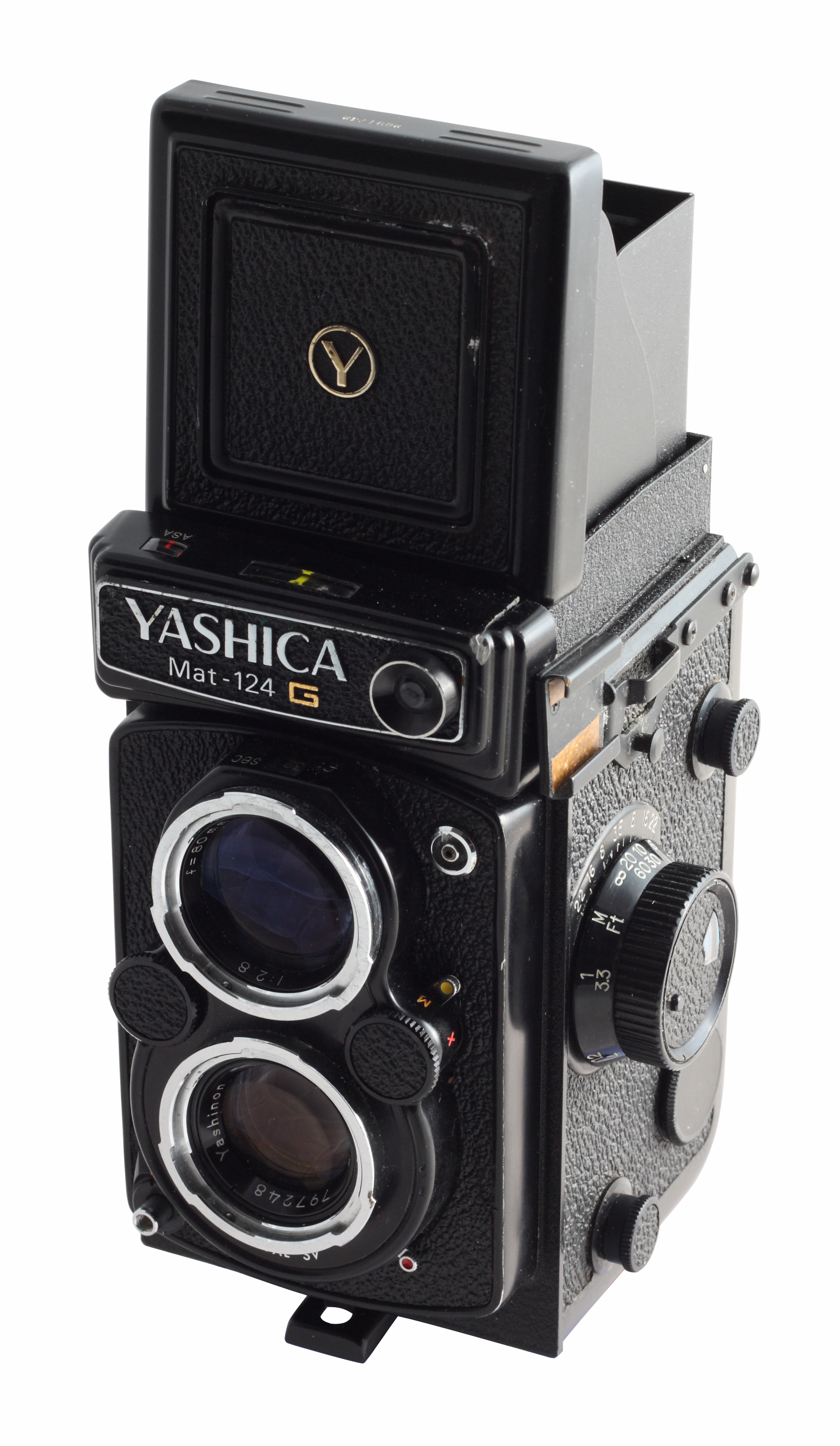 A Yashica Mat-124G 6x6 camera with its Waist-level finder open.